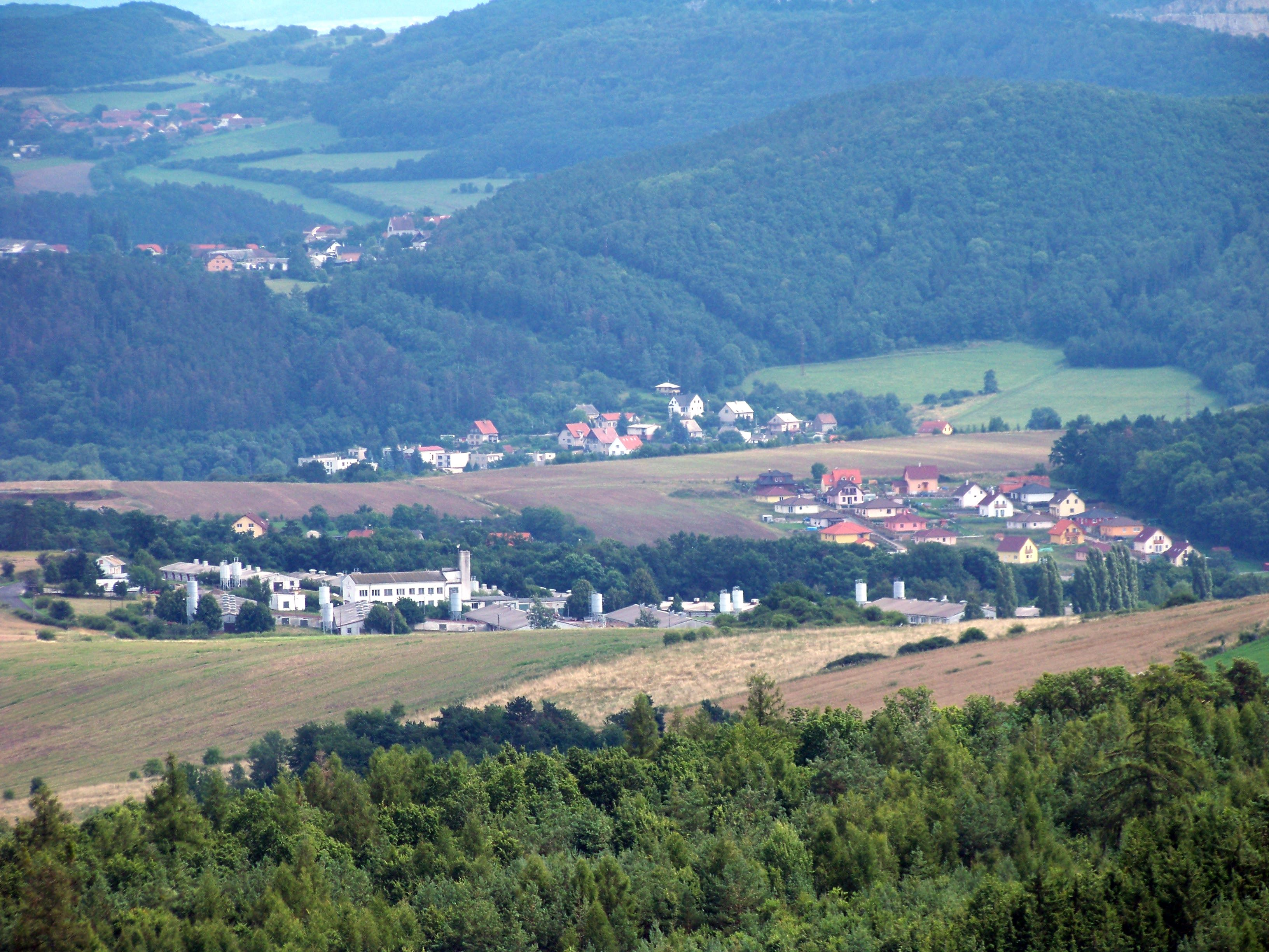 Králův Dvůr-Popovice, Beroun District, Central Bohemian Region, the Czech Republic. A view from Svatá Rock.